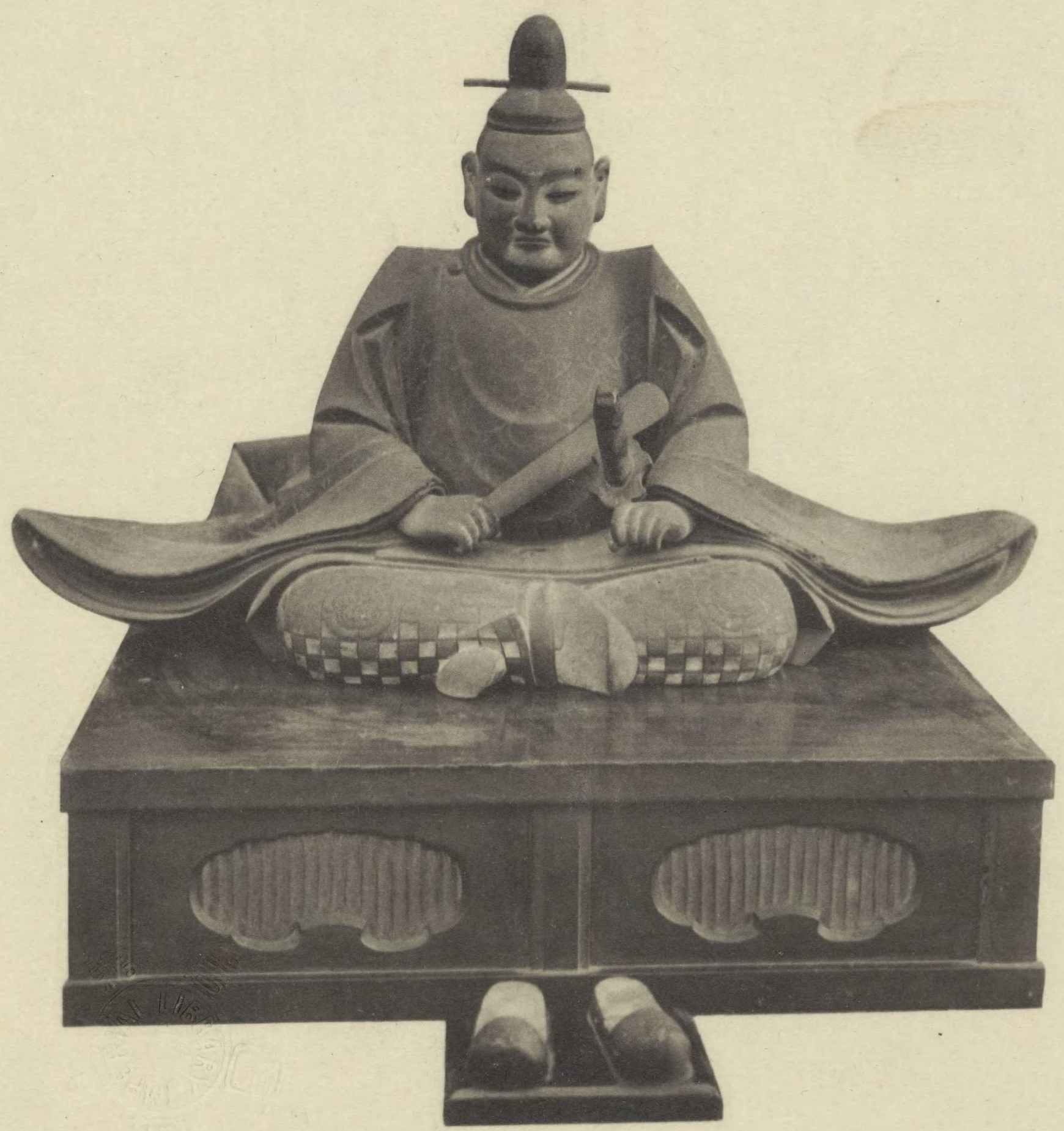 A wooden statue of Statue of Oda Nobuhide at Banshō-ji, Nagoya, Aichi prefecture.